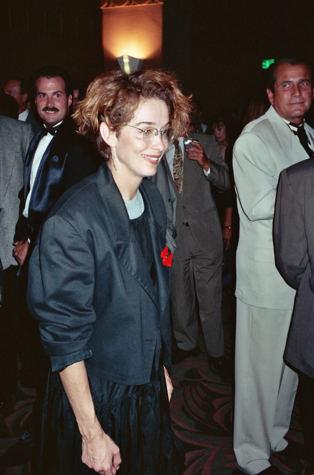 Melanie Mayron at the APLA benefit, 9/7/90 - Permission granted to copy, publish, broadcast or post but please credit "photo by Alan Light" if you can